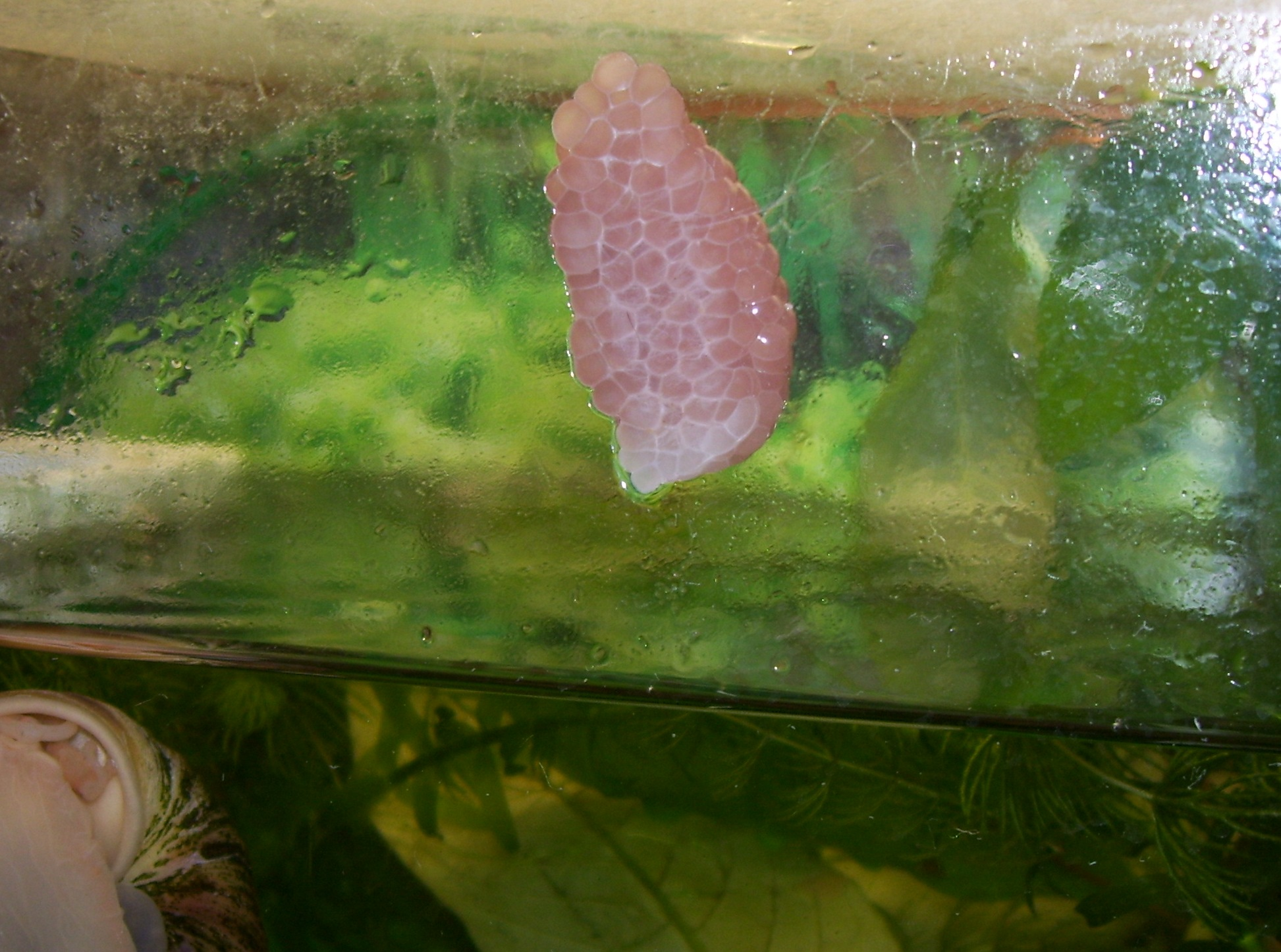 Ampullarias laying (caviar) in a house aquarium.